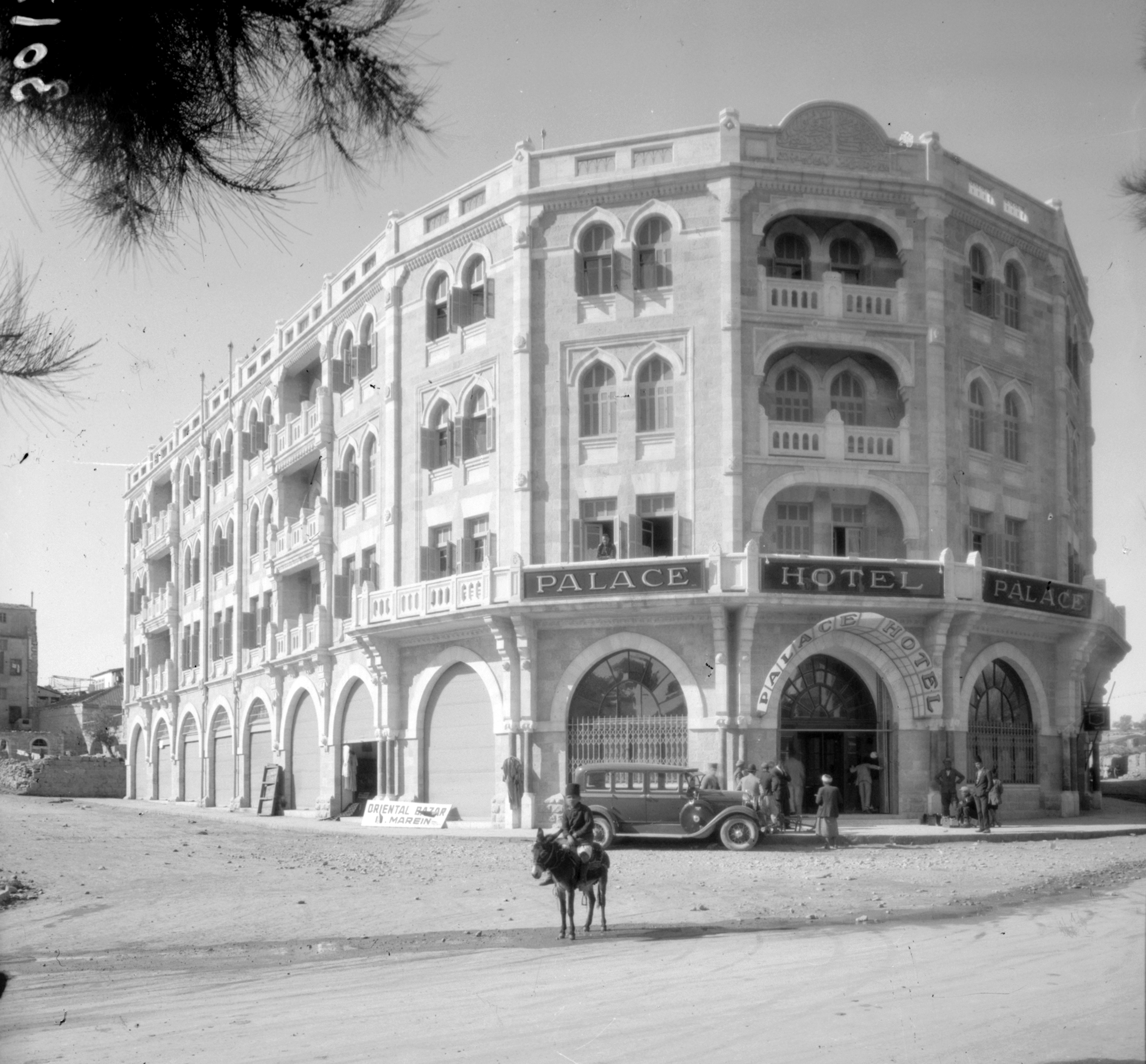 Newer Jerusalem and suburbs. Moslem Aukaf bld'g [i.e., Muslim Aukaf building], Mamillah Road